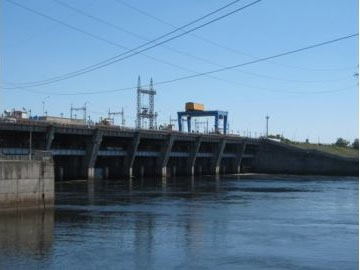 View on station from Vyshhorod